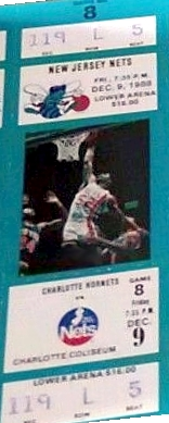 A ticket for a December 9, 1988 National Basketball Association game featuring the New Jersey Nets versus the Charlotte Hornets at the Charlotte Coliseum.